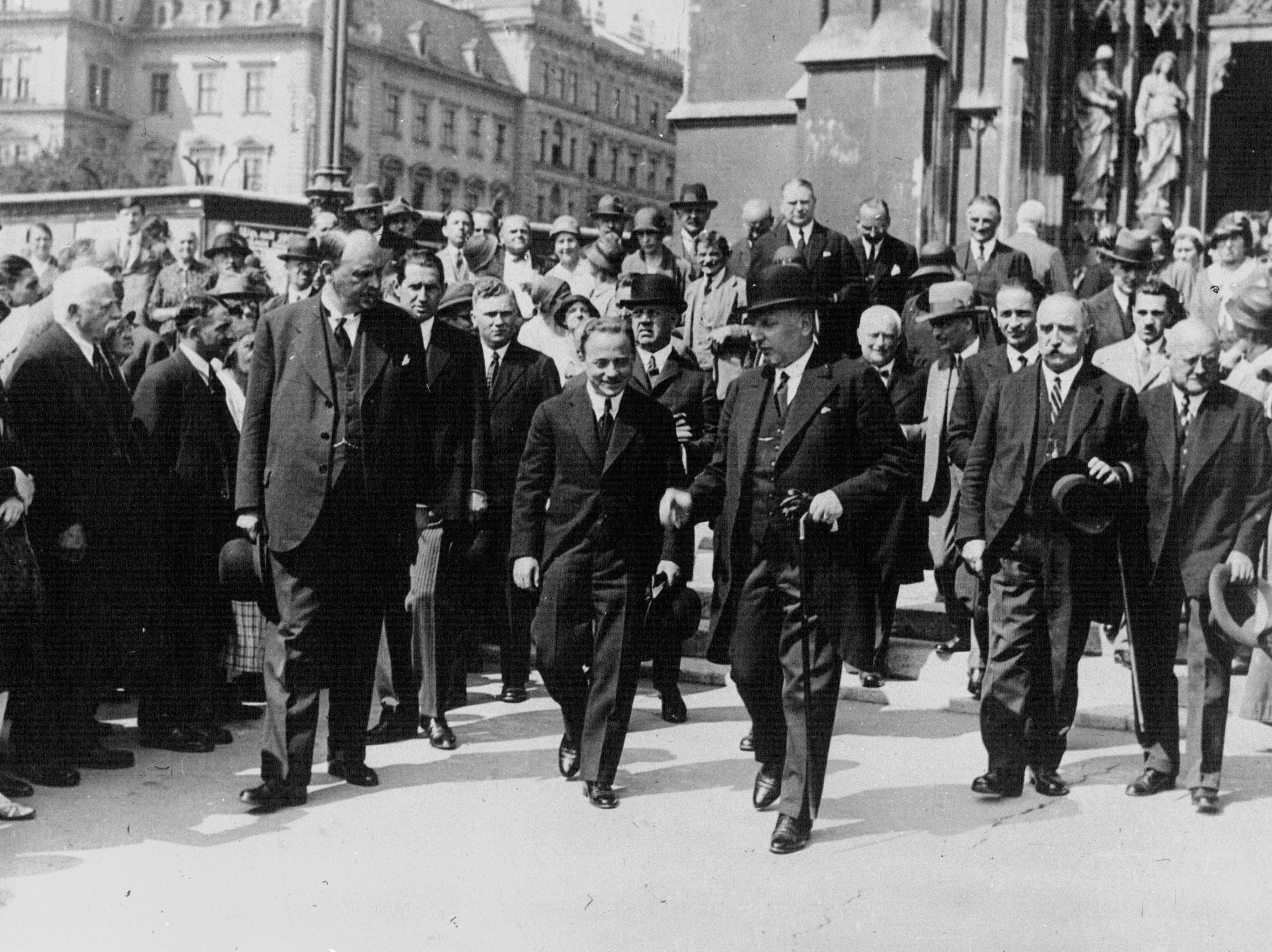 New Austrian Federal Chancellor and christian social politician Engelbert Dollfuss (in centre, without a hat), with Federal President Wilhelm Miklas on his right side, and M.P. Leopold Kunschak on his left.